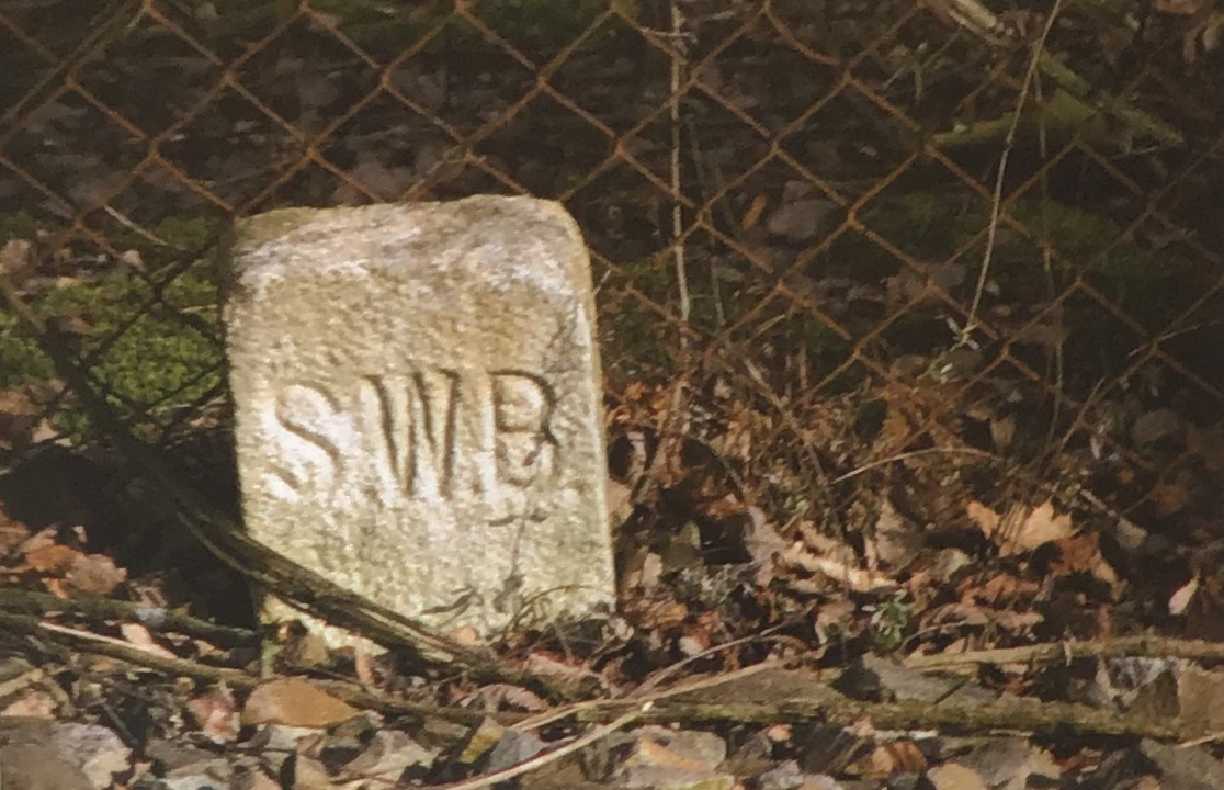 Südwestbahnen Stein Scheibbs